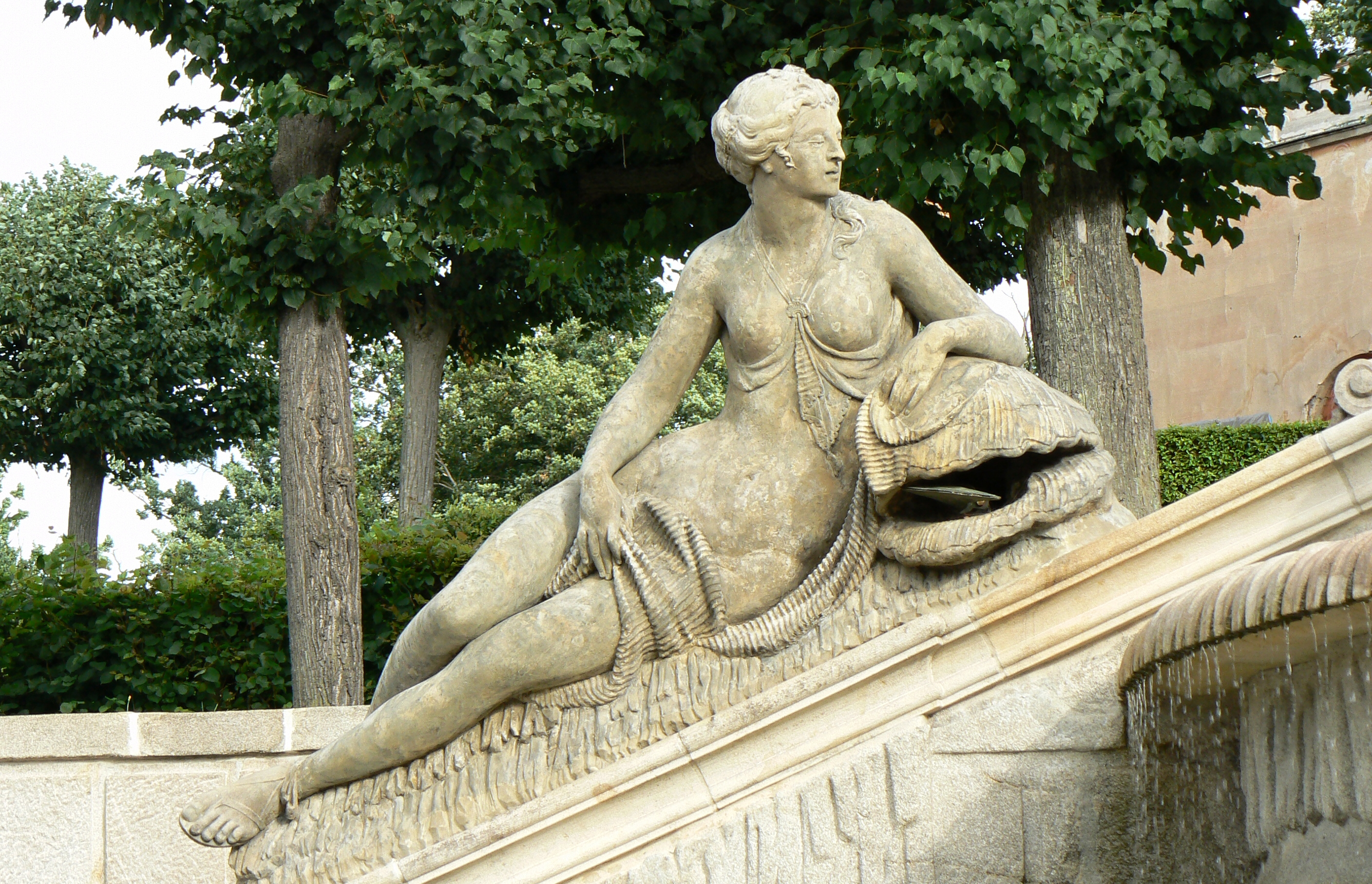 Statue from fountain in French park, Dobříš in Příbram District